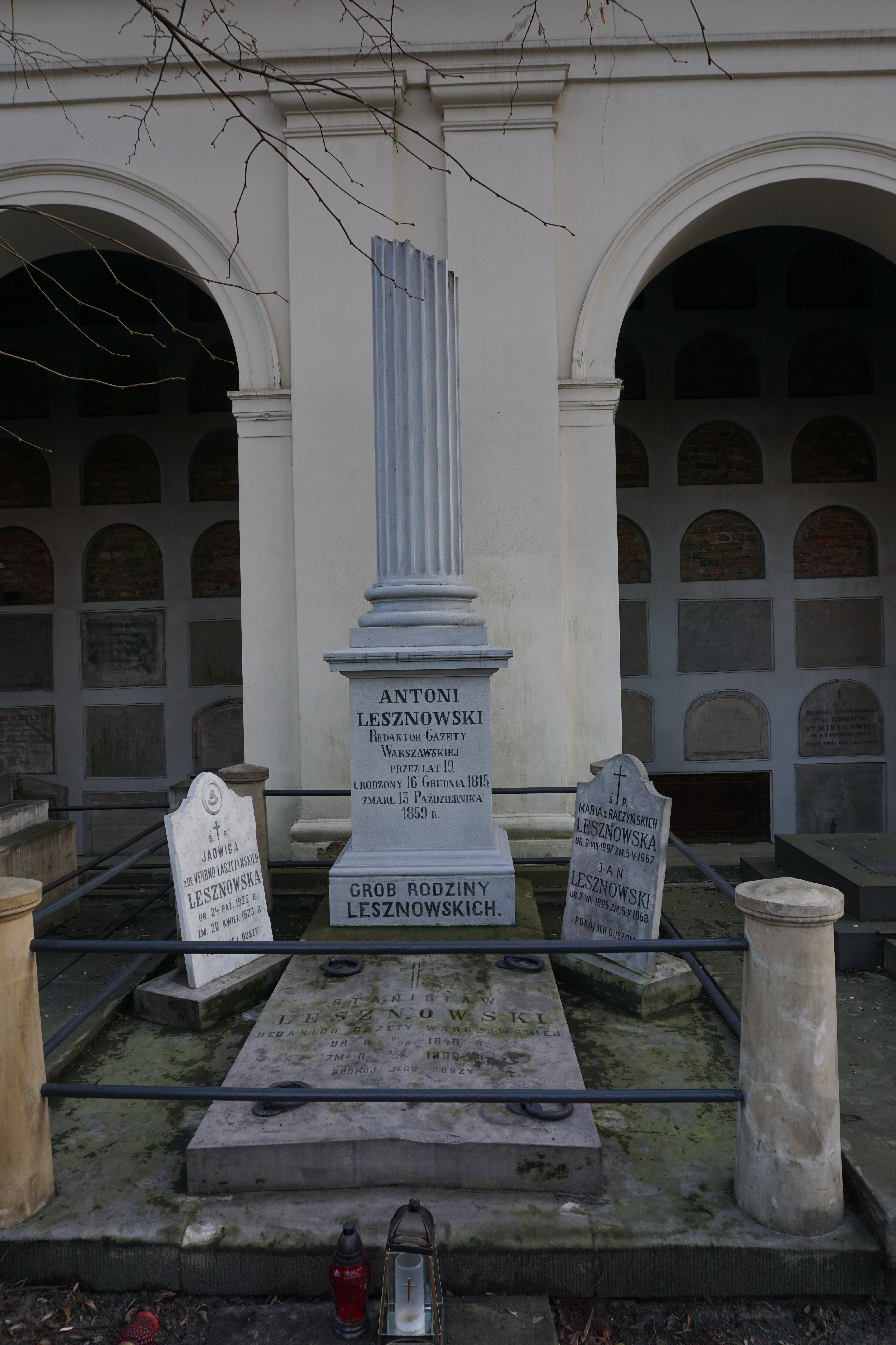 The grave of Antoni Lesznowski at the Powązki Cemetery (section Under the catacombs, grave 141, 142)